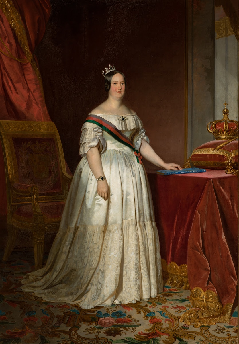 Depicted person: Maria II of Portugal – Queen of Portugal